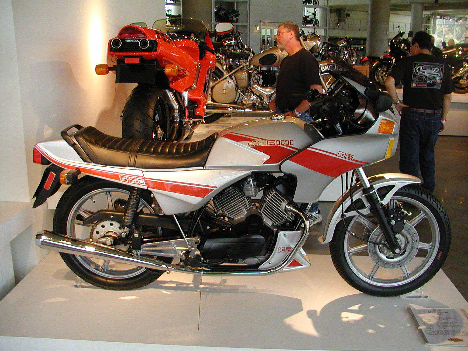 Barber Motorcycle Museum - Oct 22 2006 (210) 1986 Moto Morini K2 / More description is here